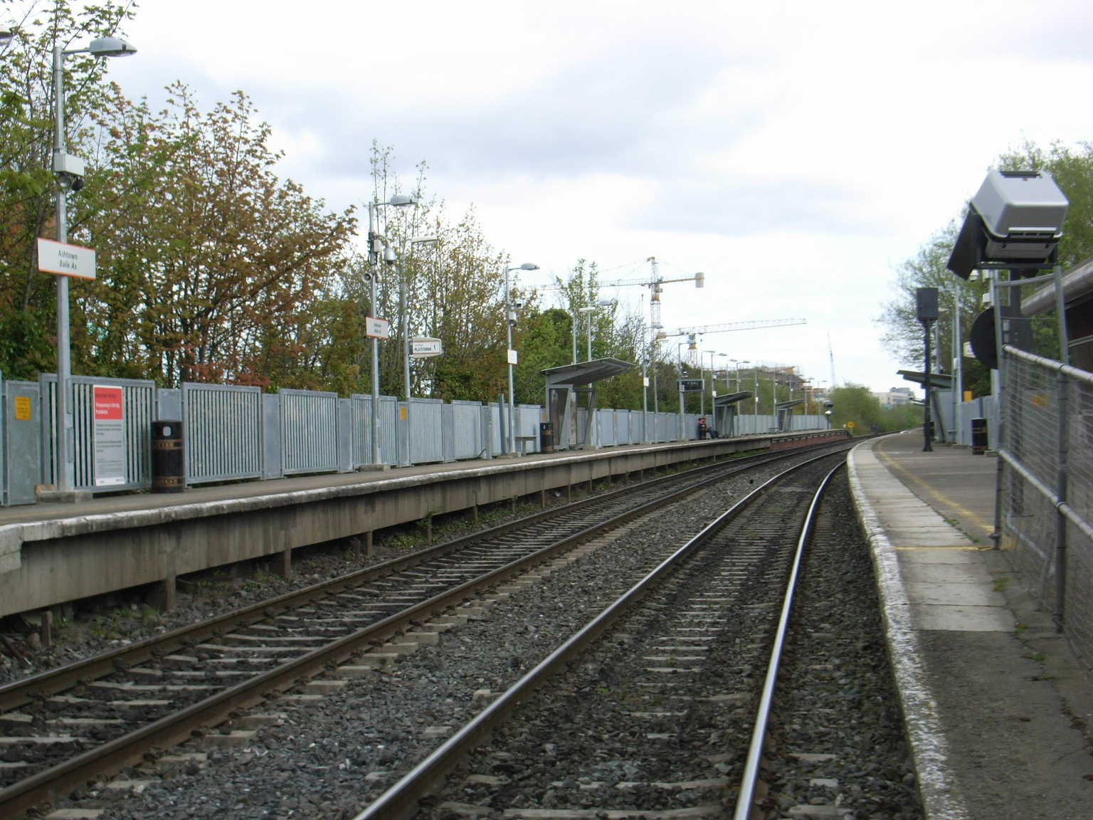 Ashtown railway station Original description: Ashtown Station